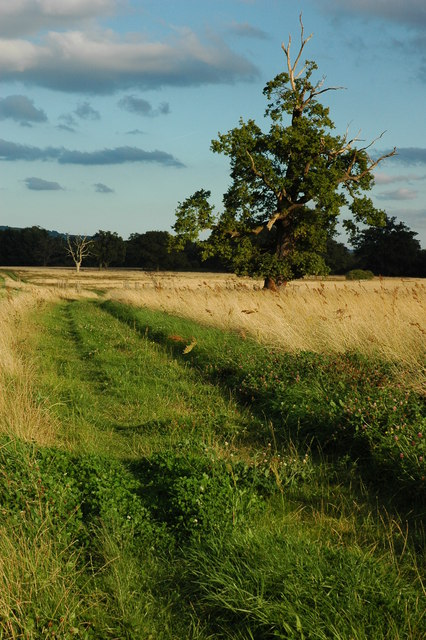 Croome Park A footpath through Croome Landscape Park. Until the National Trust acquired the parkland in 1997 this land was in arable use, the National Trust have now returned it to pasture land.